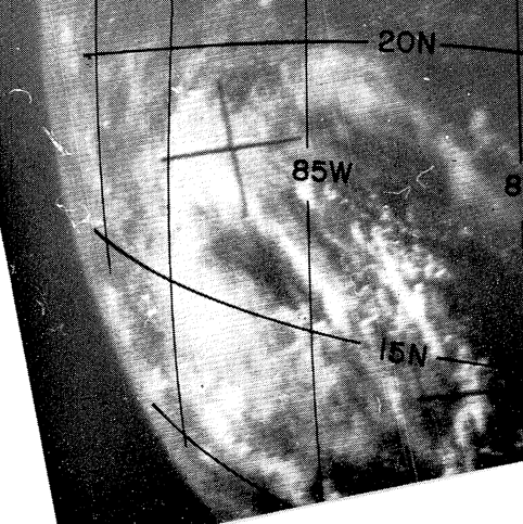 This satellite picture of the Caribbean tropical depression was taken while it was over Central America on October 4, 1962 at 1348z by TIROS V